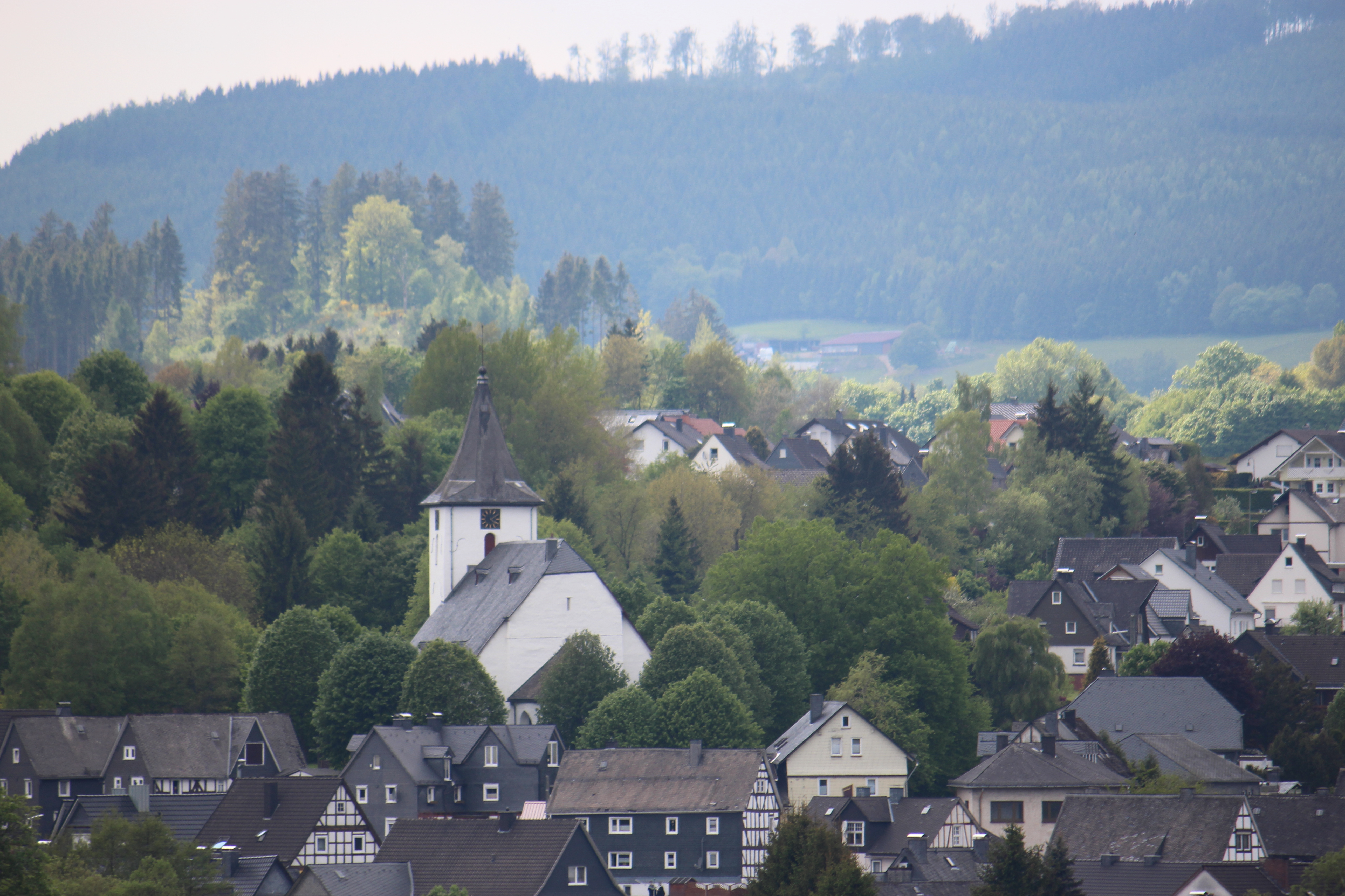 View on the protestant church of Feudingen (Evangelische Kirche Feudingen), NRW, Germany.